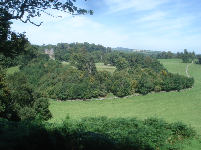 Dinefwr Park Looking northwards with Newton House to the left.